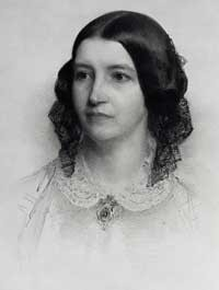 Drawing of Fanny Appleton Longfellow. Artist is Samuel W. Rowse (d. 1901).